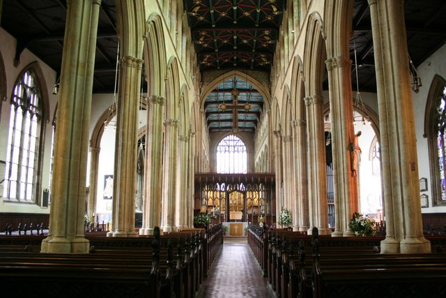 St.Mary's nave Fifteenth century Perpendicular nave in St.Mary's church, looking east